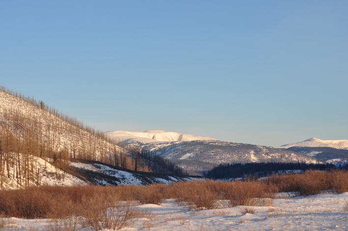 Burkhan Khaldun mount